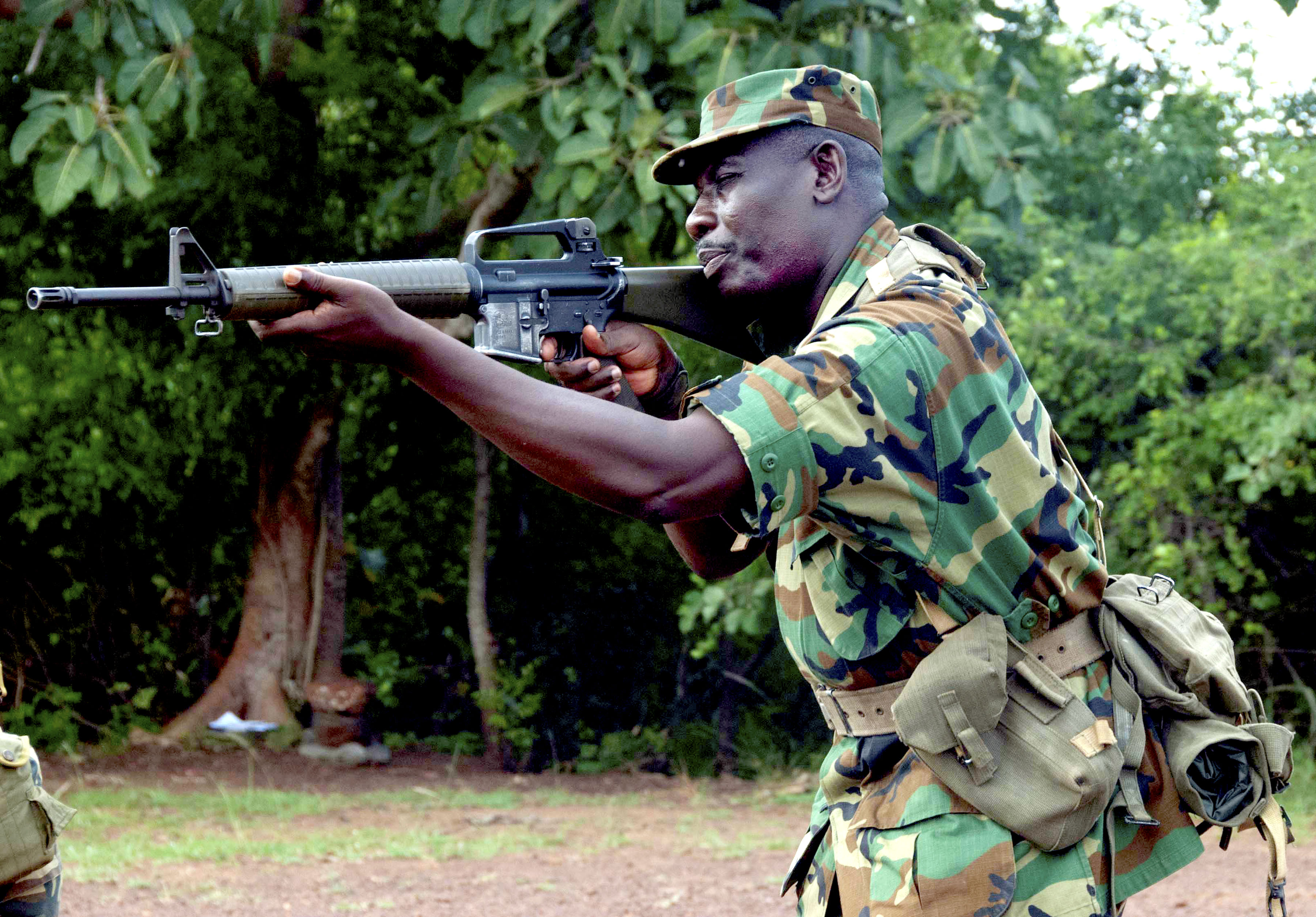 Ghana Armed Forces along with U.S. Army Africa concluded week one of Western Accord 13 and began a command post exercise June 24 at the Kofi Annan International Peacekeeping Training Center, Accra, Ghana. Western Accord 13 is a two-part exercise that includes academics and a command post exercise. In part one, participants received classes focused on collective tasks, functional, and staff procedures in support of command and control of a peacekeeping operation based on real world events. In part two, a brigade headquarters staff will prepare and then execute its plan to move forces into a contested area, defeat terrorists, and restore basic services and the rule of law while setting the stage for national reconciliation. Classes included civil military operations, stability operations, and operational planning. (U.S. Army Africa photo)